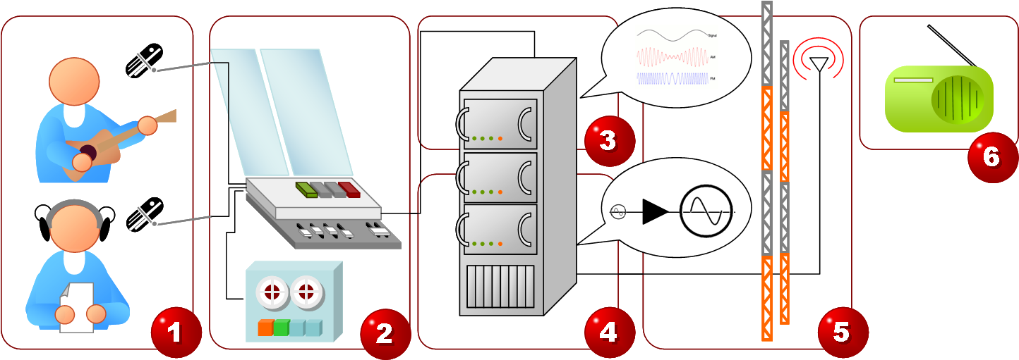 An illustration of the radio broadcasting process